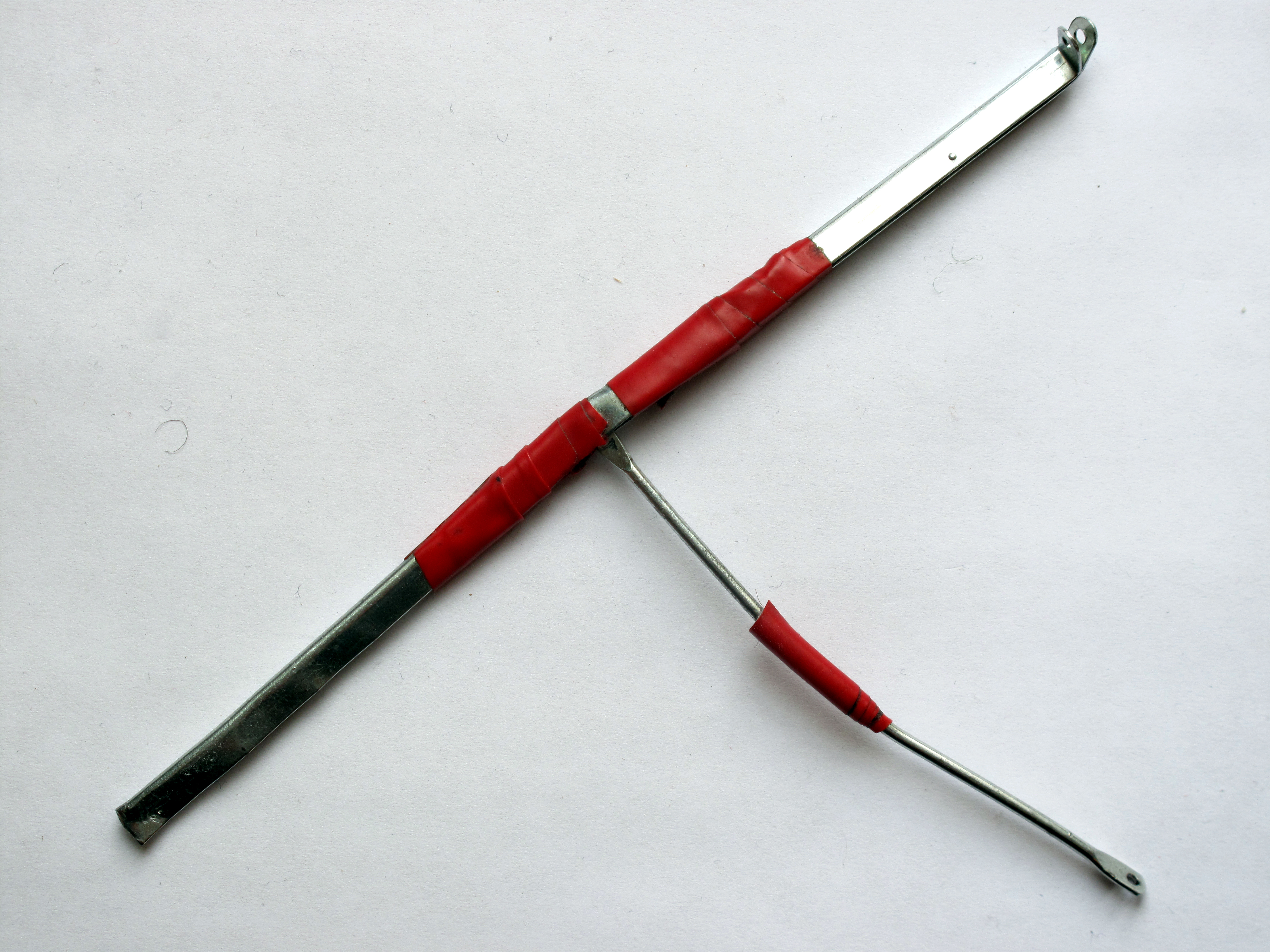 Lockpick used to steal a car in Helsinki (Finland) found during police investigation underneath the floor carpet of the passenger side.